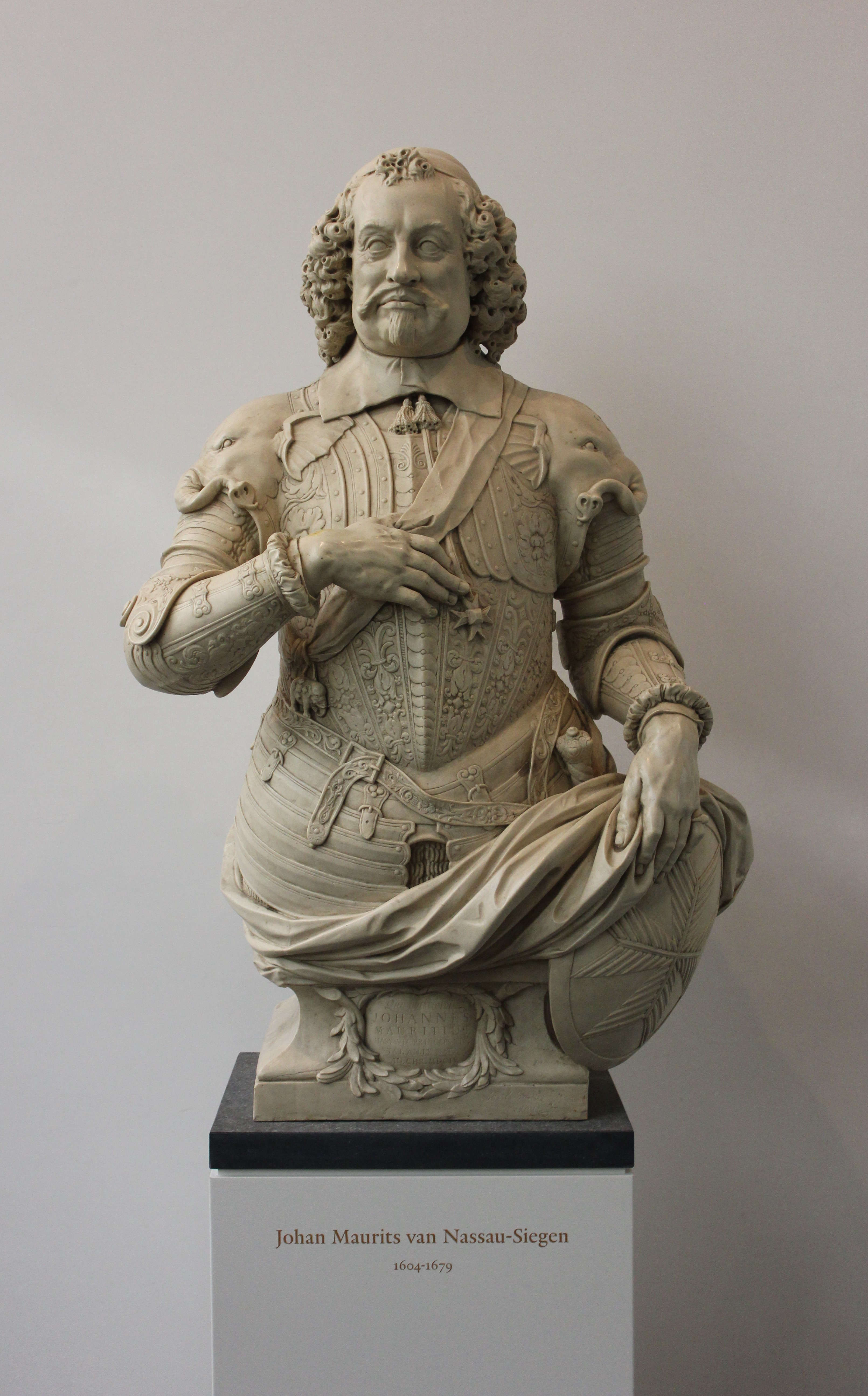 Portrait of John Maurice, Prince of Nassau-Siegen. Half-length, in armor. After an original by Bartholomeus Eggers, made in 1664 (or 1665) for the Mauritshuis garden in The Hague, which was transferred in 1669 to the Fürstengruft in Siegen, where John Maurice would later be burried.